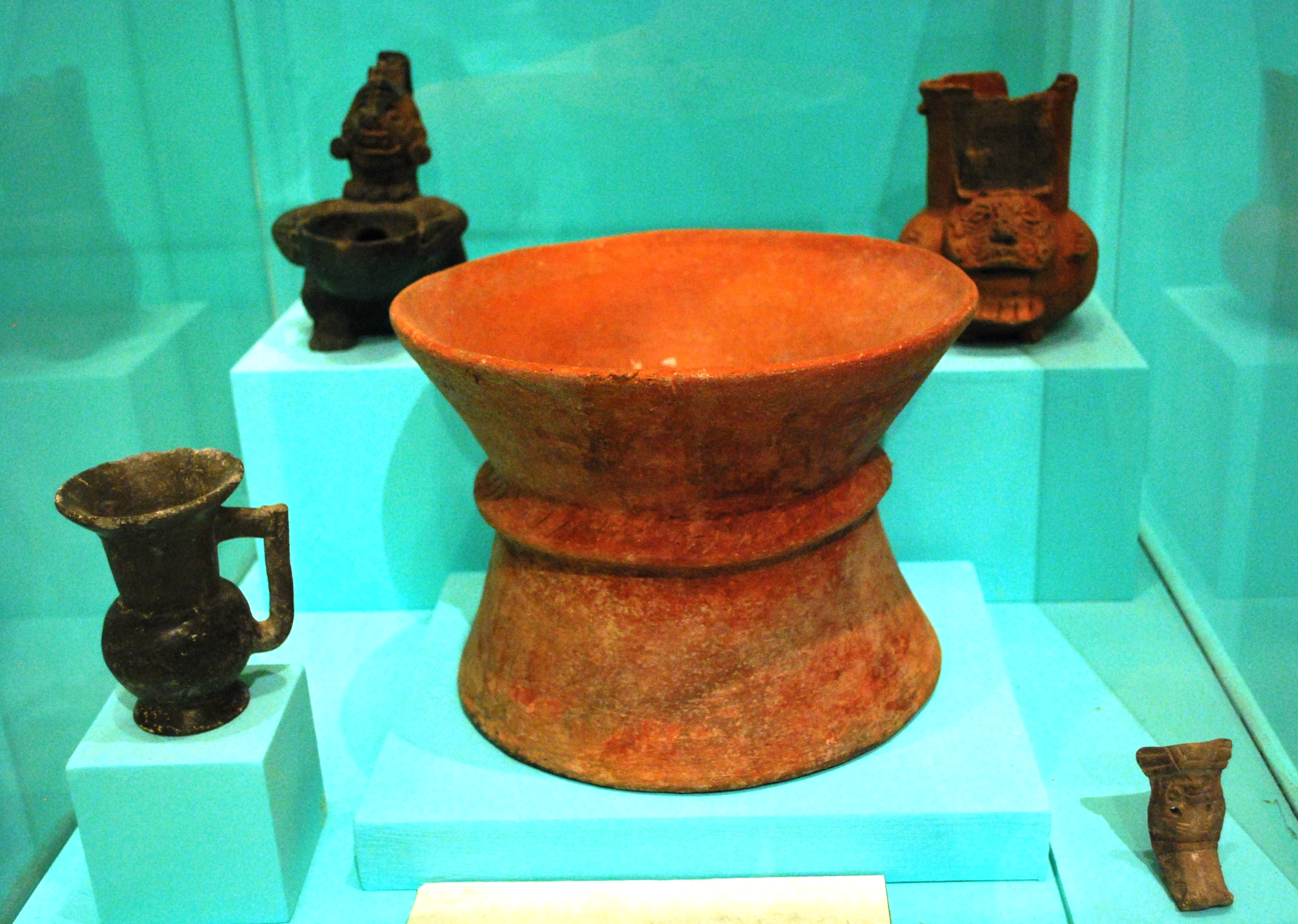 Ceramics from the Cerro de las Minas archeological site on display at the Regional Museum of Huajuapan in Huajuapan, Oaxaca